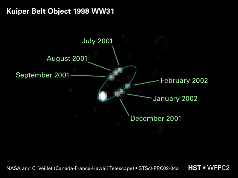 NASA's Hubble Space Telescope snapped pictures of a double system of icy bodies in the Kuiper Belt. This composite picture shows the apparent orbit of one member of the pair. In reality, the objects, called 1998 WW31, revolve around a common center of gravity, like a pair of waltzing skaters. This picture shows the motion of one member of the duo [the six faint blobs] relative to the other [the large white blob]. The blue oval represents the orbital path.